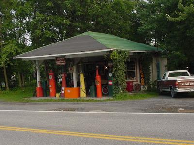 Weavers Garage from the Northwestern Turnpike (US 50). Originally known as the Northwestern Garage.